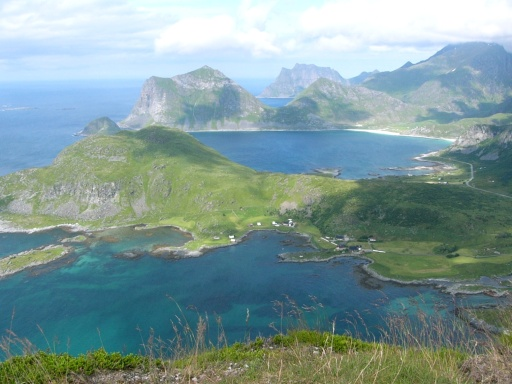 Taken at Offersøykammen (Vestvågøy, Lofoten) towards north, towards mountains Veggen and Mannen. The most respected beaches of the Lofoten Islands are located on the south and north sides of the peninsula (the second peninsula of the three in the picture).